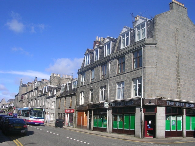 George Street, Aberdeen (nr. Fraser Place)